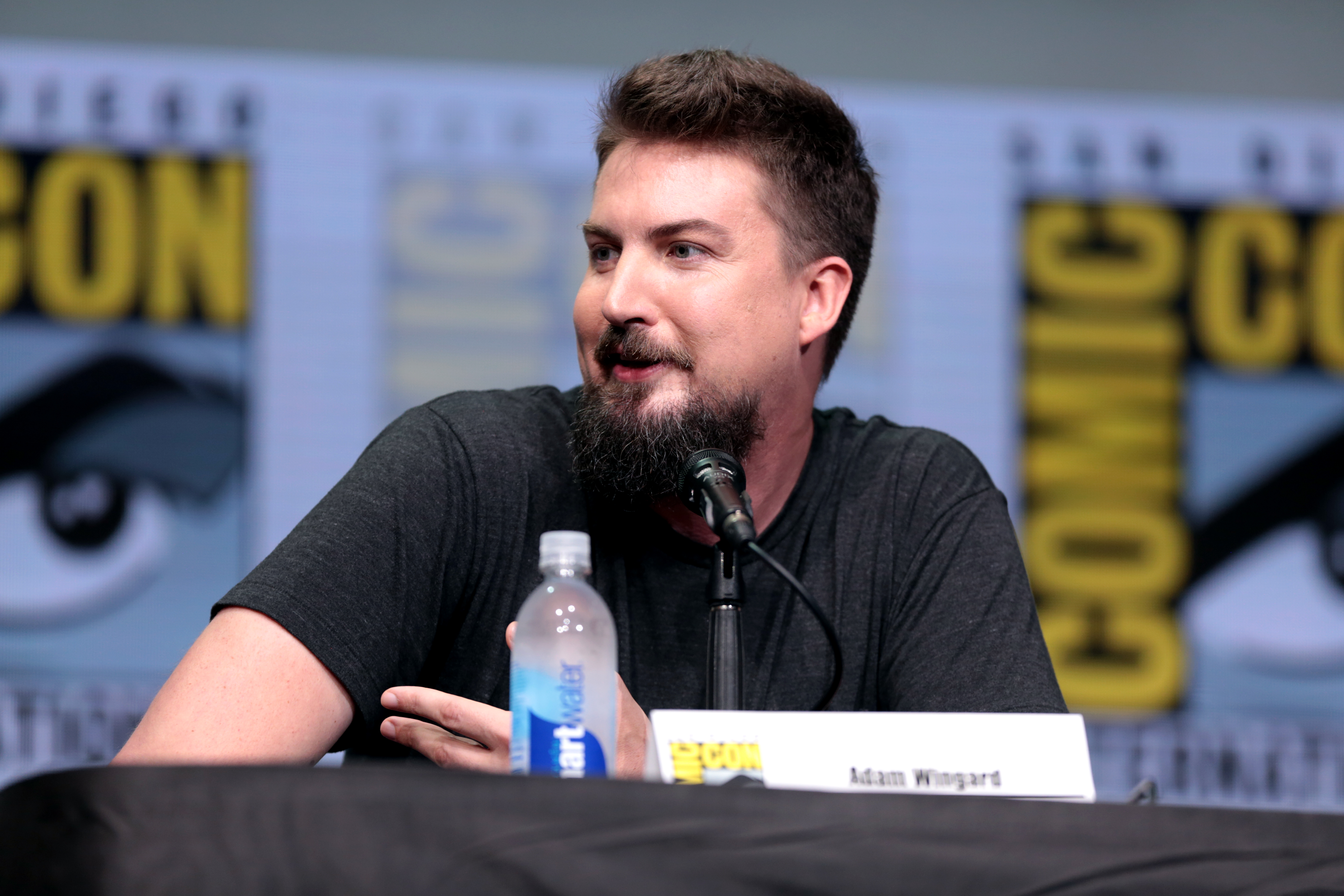 Adam Wingard speaking at the 2017 San Diego Comic Con International, for "Death Note", at the San Diego Convention Center in San Diego, California.